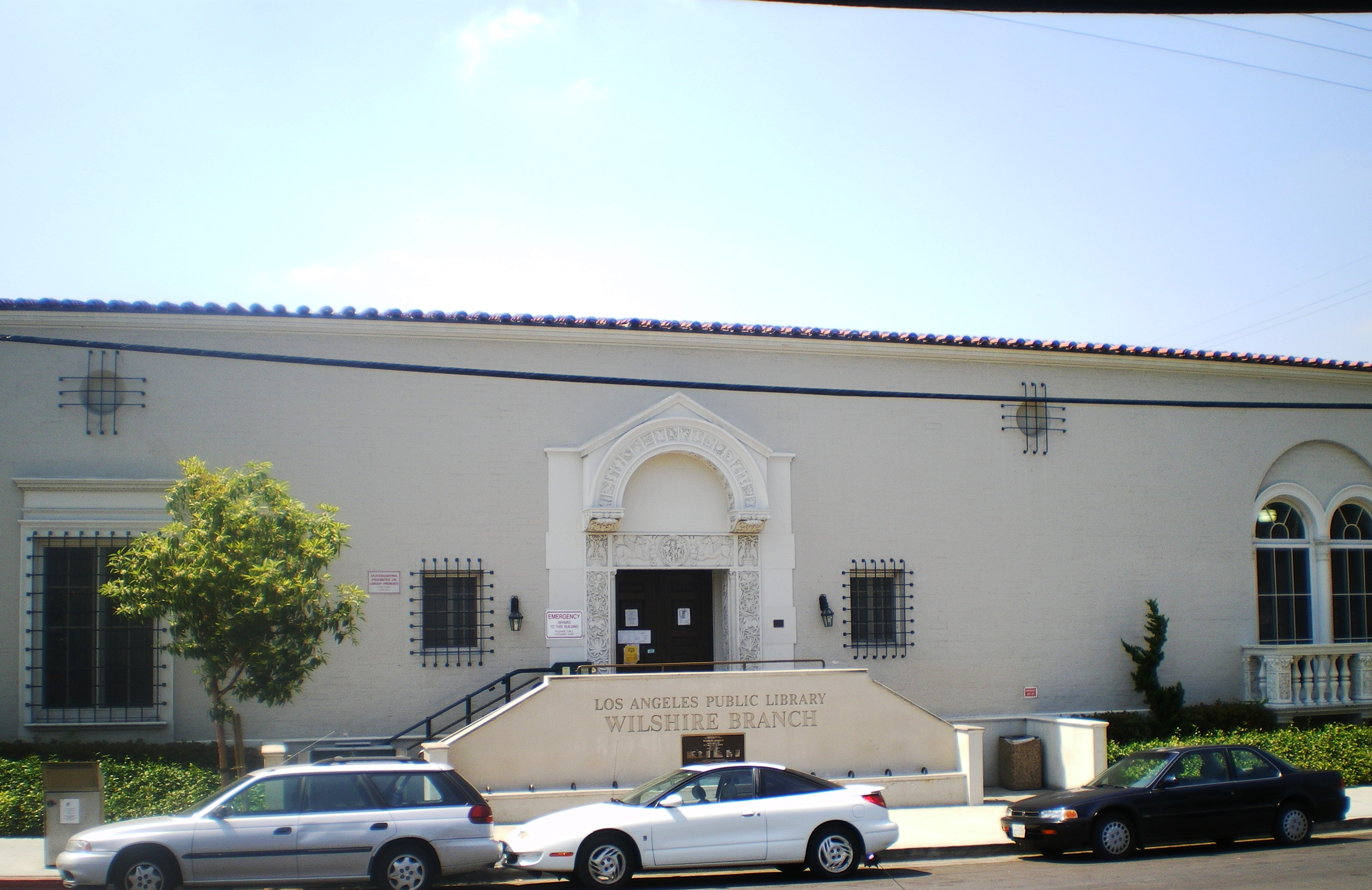 Wilshire Branch, Los Angeles Public Library — 149 N. Saint Andrews Place, Mid-Wilshire district, Los Angeles, California.